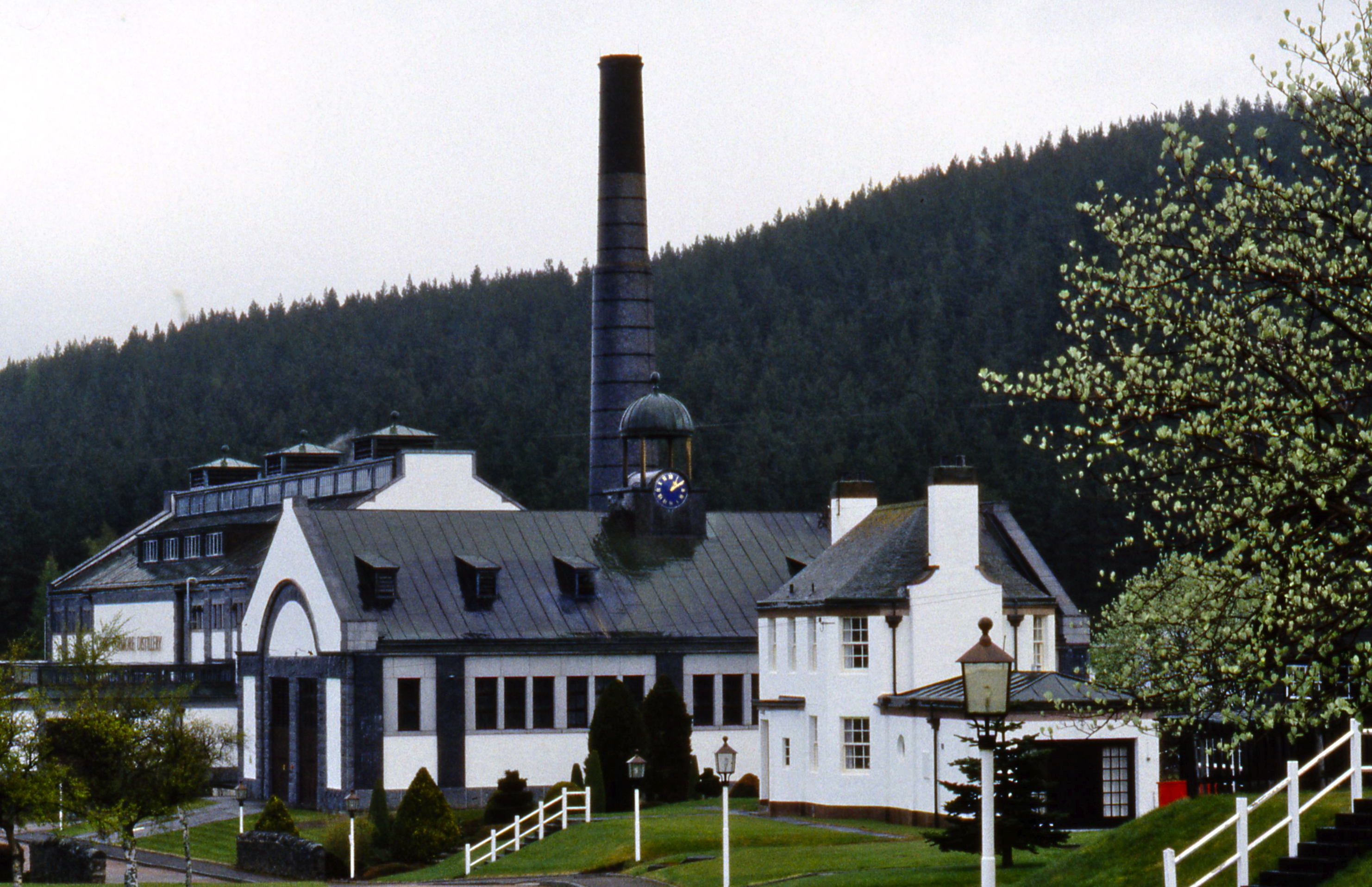 Tormore Distillery